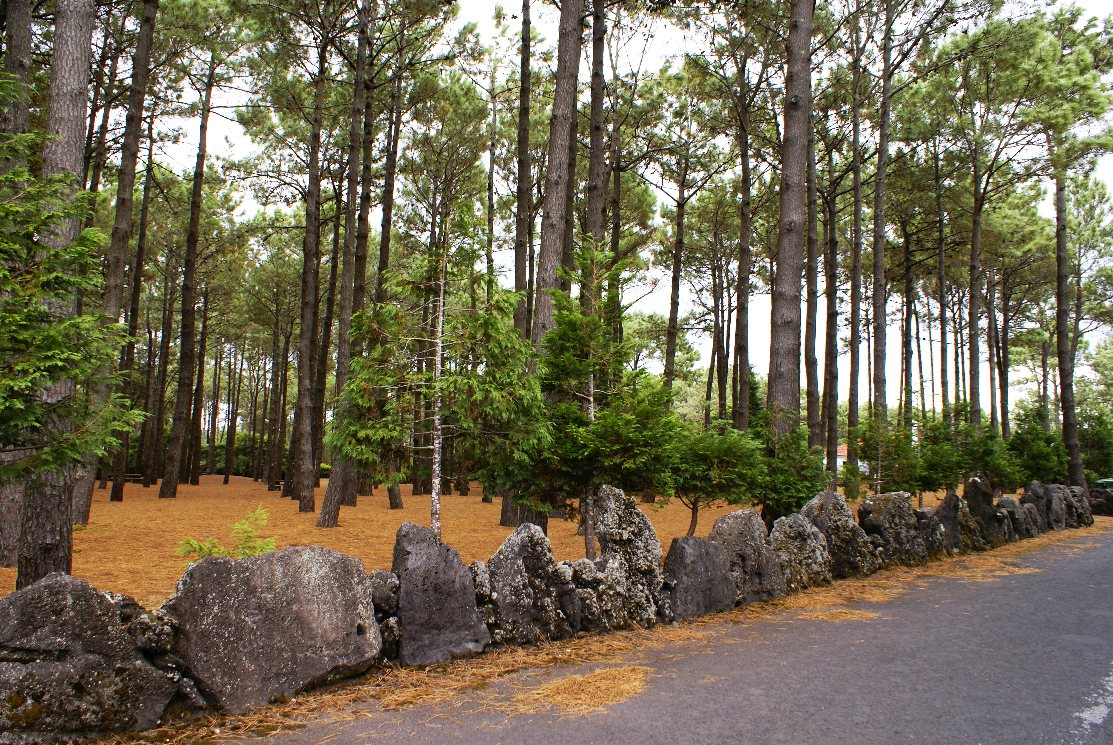 Parque Florestal de Recreio de Santa Luzia, aspectos 2, concelho de São Roque do Pico, ilha do Pico, Açores, Portugal